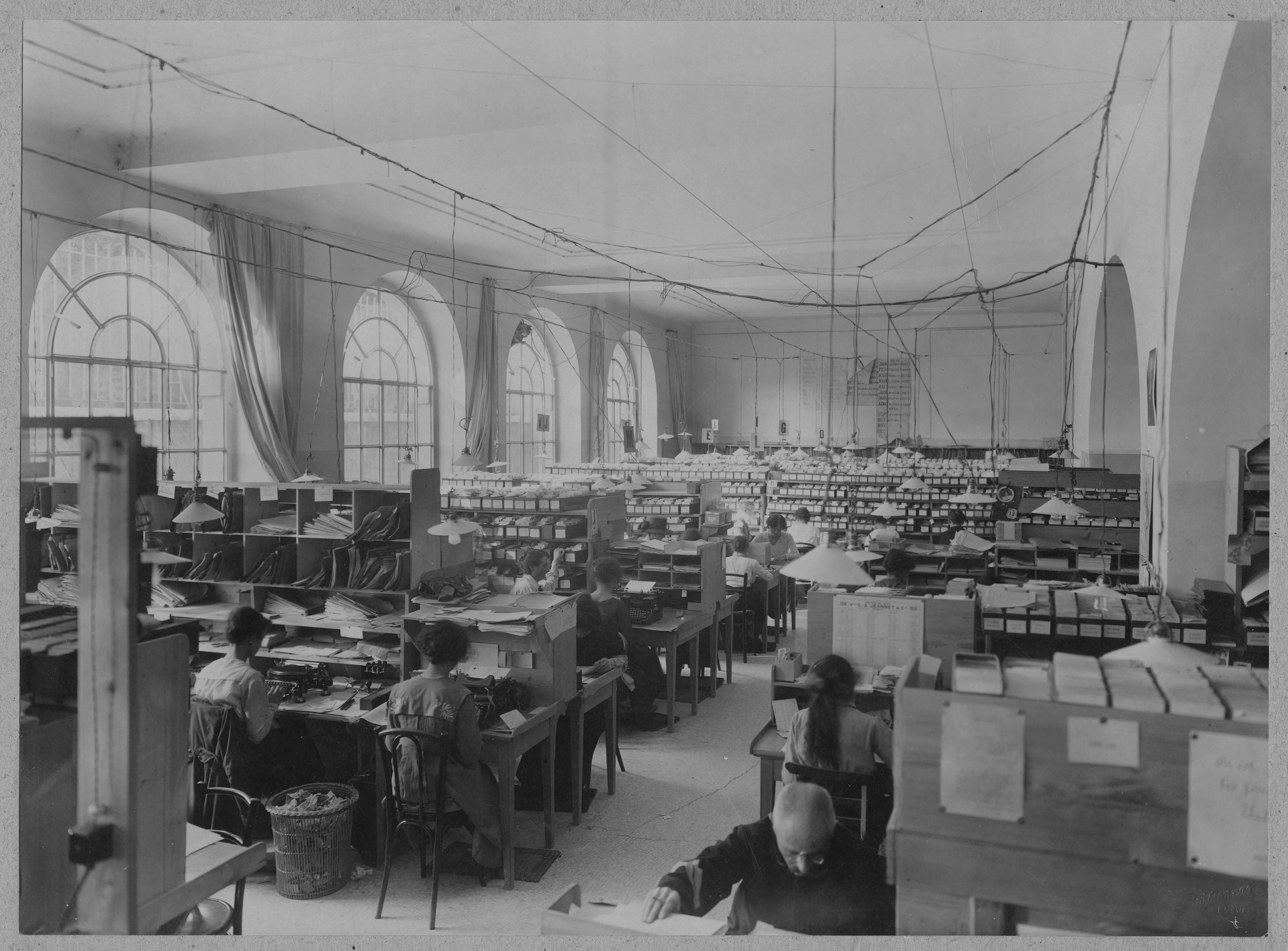 World War I. Geneva, Rath Museum. International Prisoners of War Agency. Tracing service, French-Belgian section. One part of the card index.